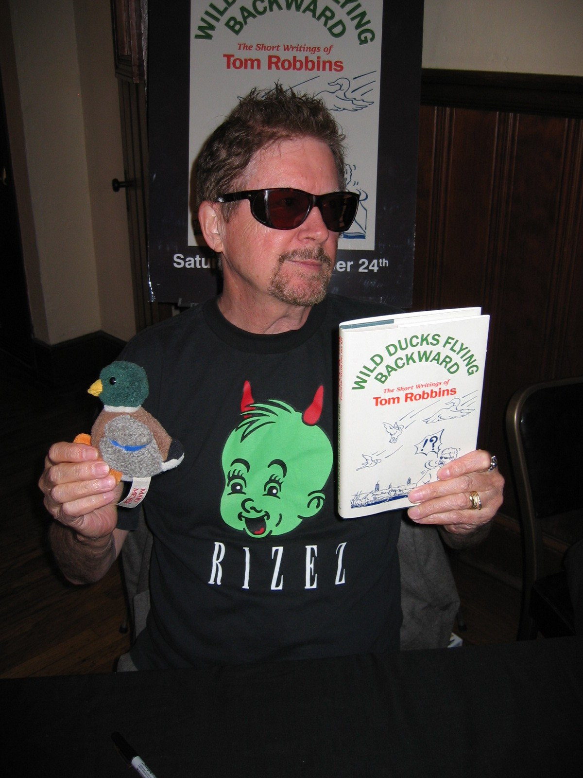 Tom Robbins in San Francisco at a reading sponsored by Booksmith.